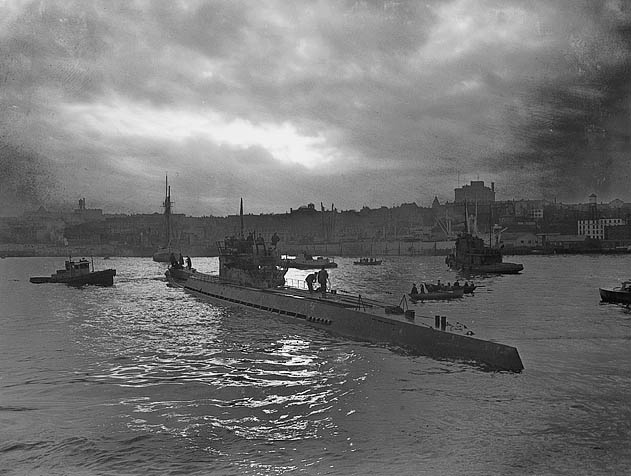 German submarine U-190 arrives in St. John’s Newfoundland in June 1945 after surrendering to Royal Canadian Navy sailors off the coast of Newfoundland on 12 May 1945.